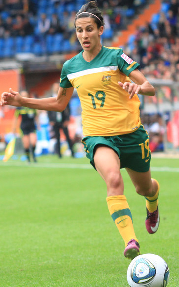 Leena Khamis playing for Australia in the 2011 FIFA Women's World Cup